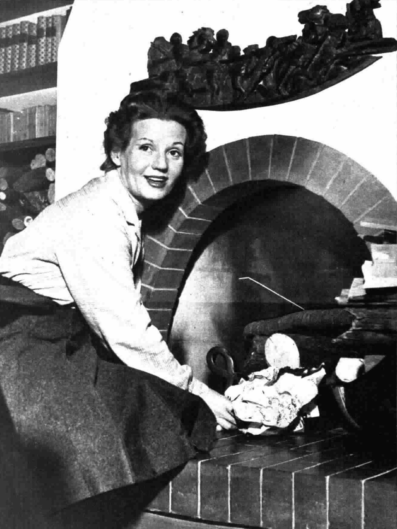 Italian actress Laura Solari